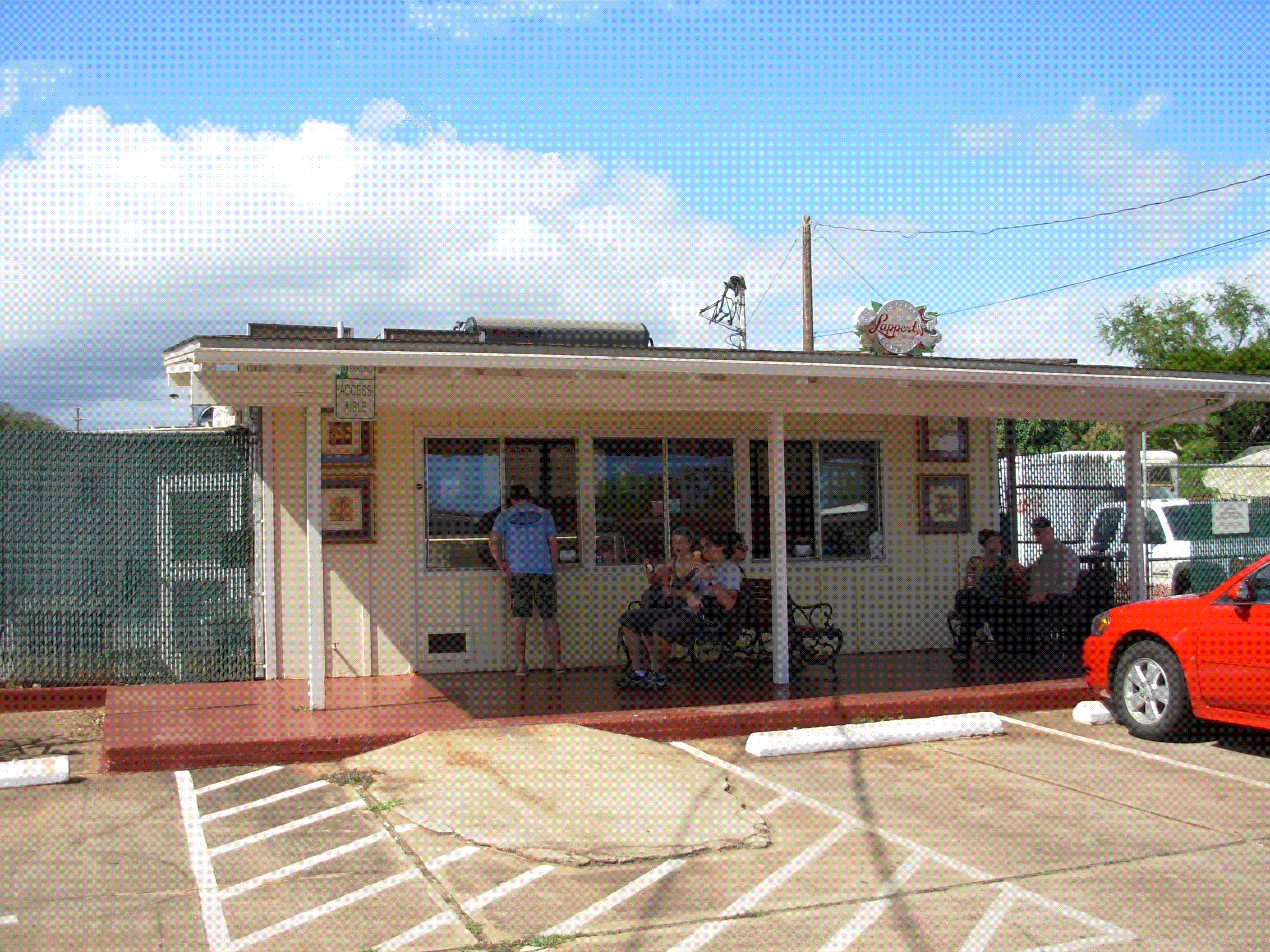 LappertsAlohaIceCreamHanapepeKauaiHawaii